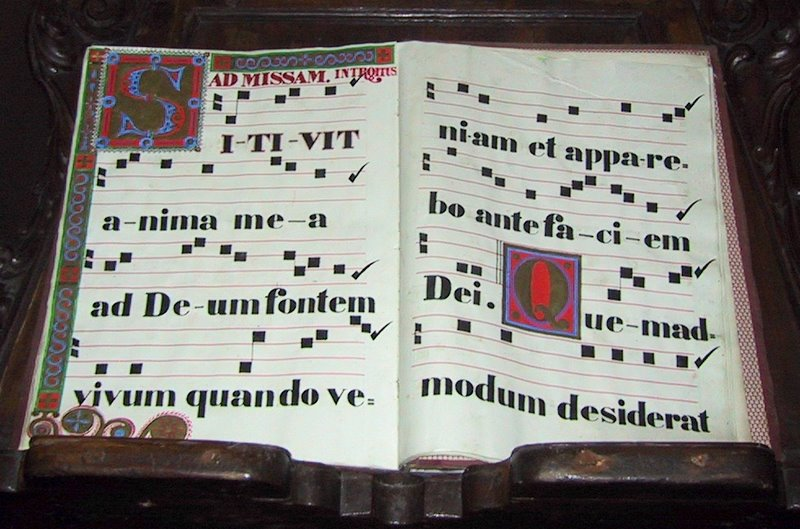 Data of manuscript unknown. Held in Florence, Italy. Photo by Asiir 17:00, 13 February 2007 (UTC).